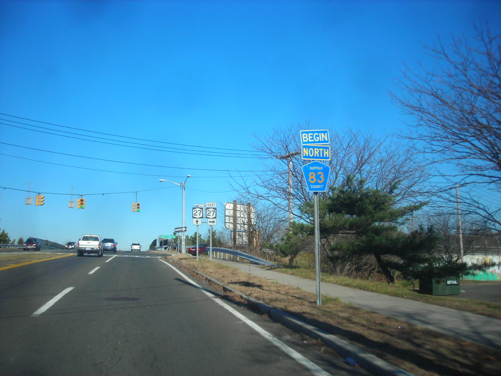 Suffolk County Route 83 at the junction with NY 27 in North Patchogue. New York.